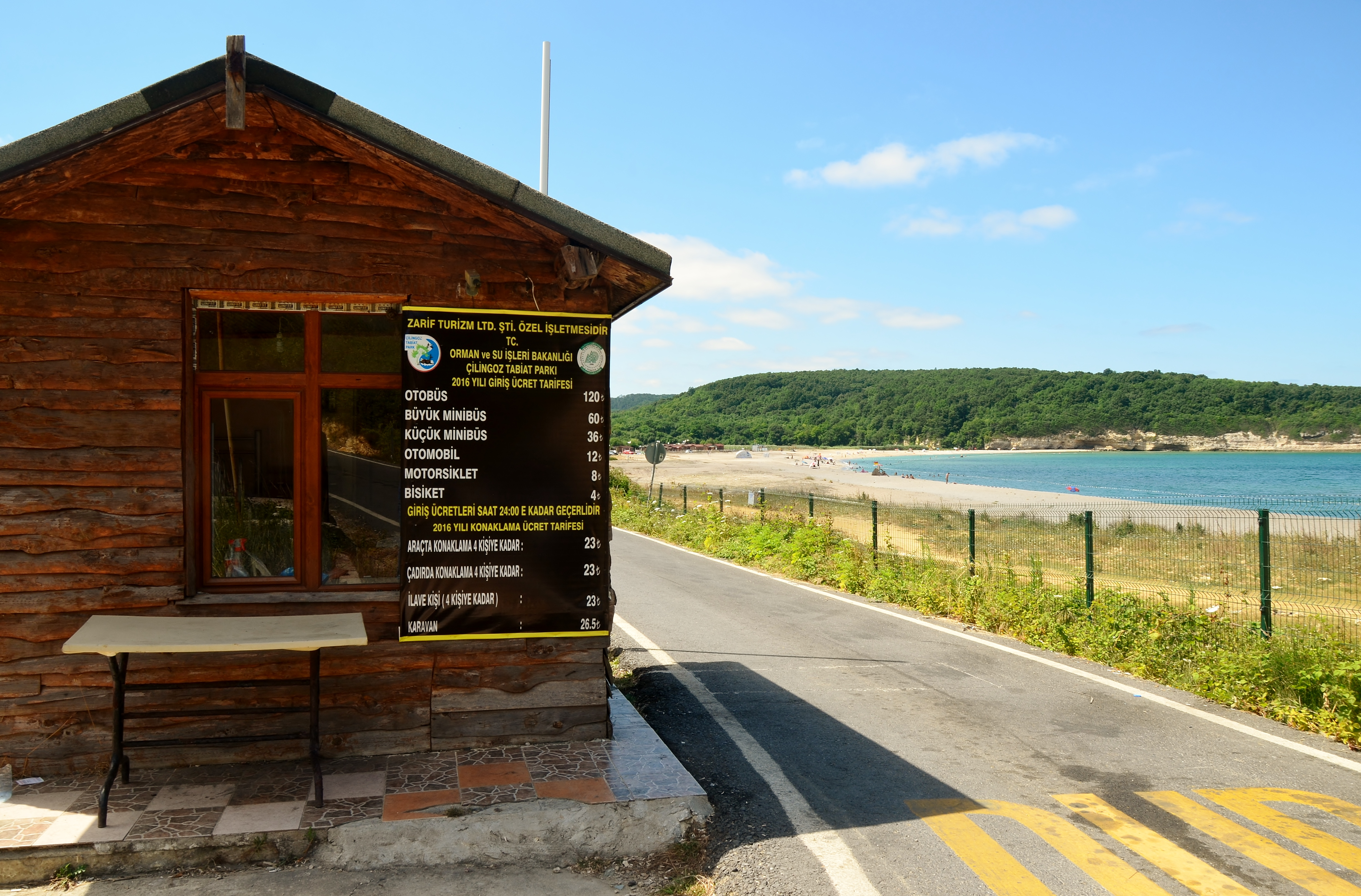 Tariff list for Çilingoz Nature Park in Çatalca, Istanbul Province, Turkey at east entrance